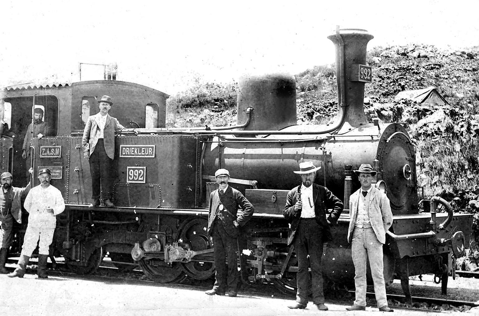 NZASM 32 Tonner (0-4-2T) no. 992 Driekleur